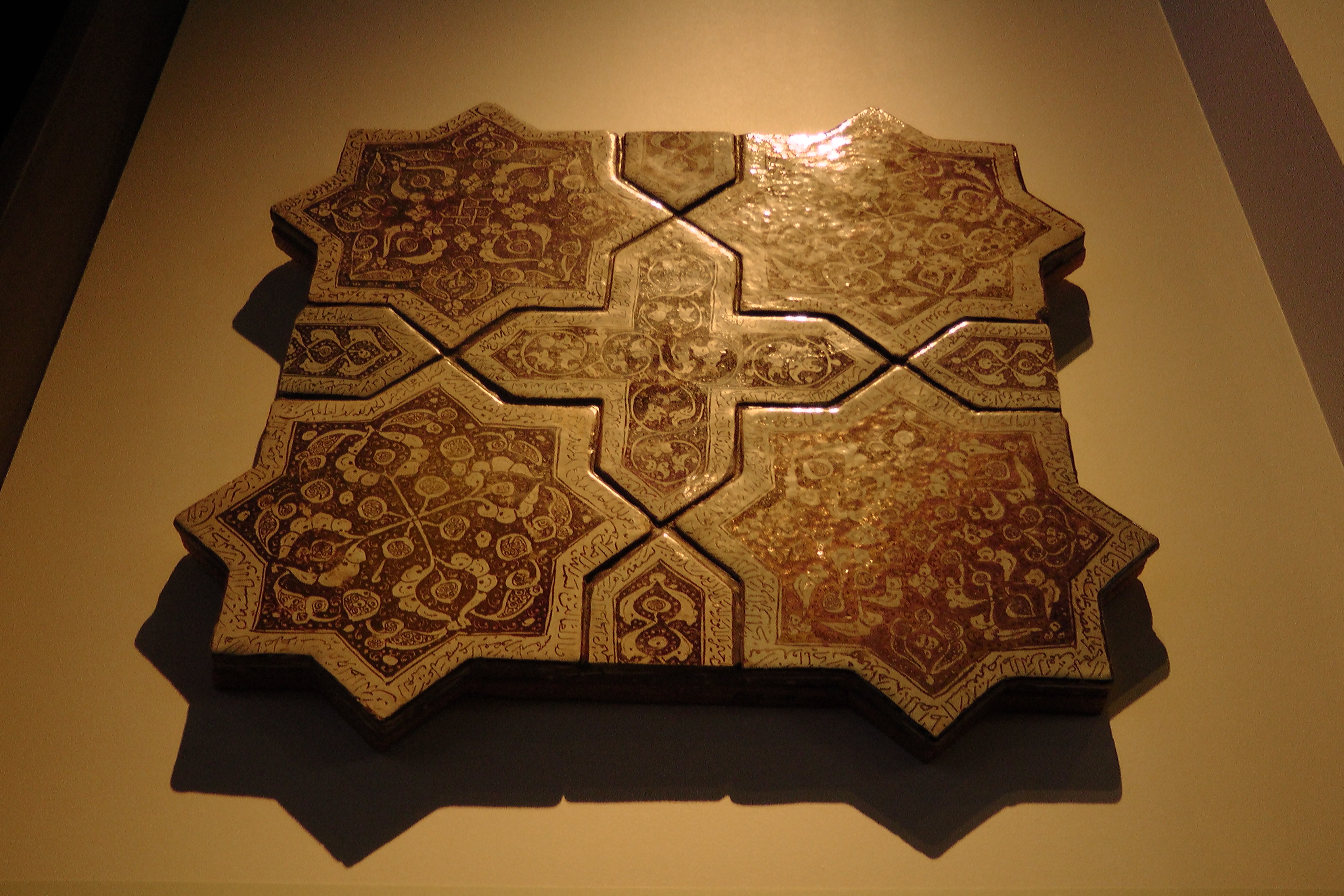 Persian Fritware from 13th century (Seljuk Era). This work has been made in the city of Kashan in Persia (Iran).